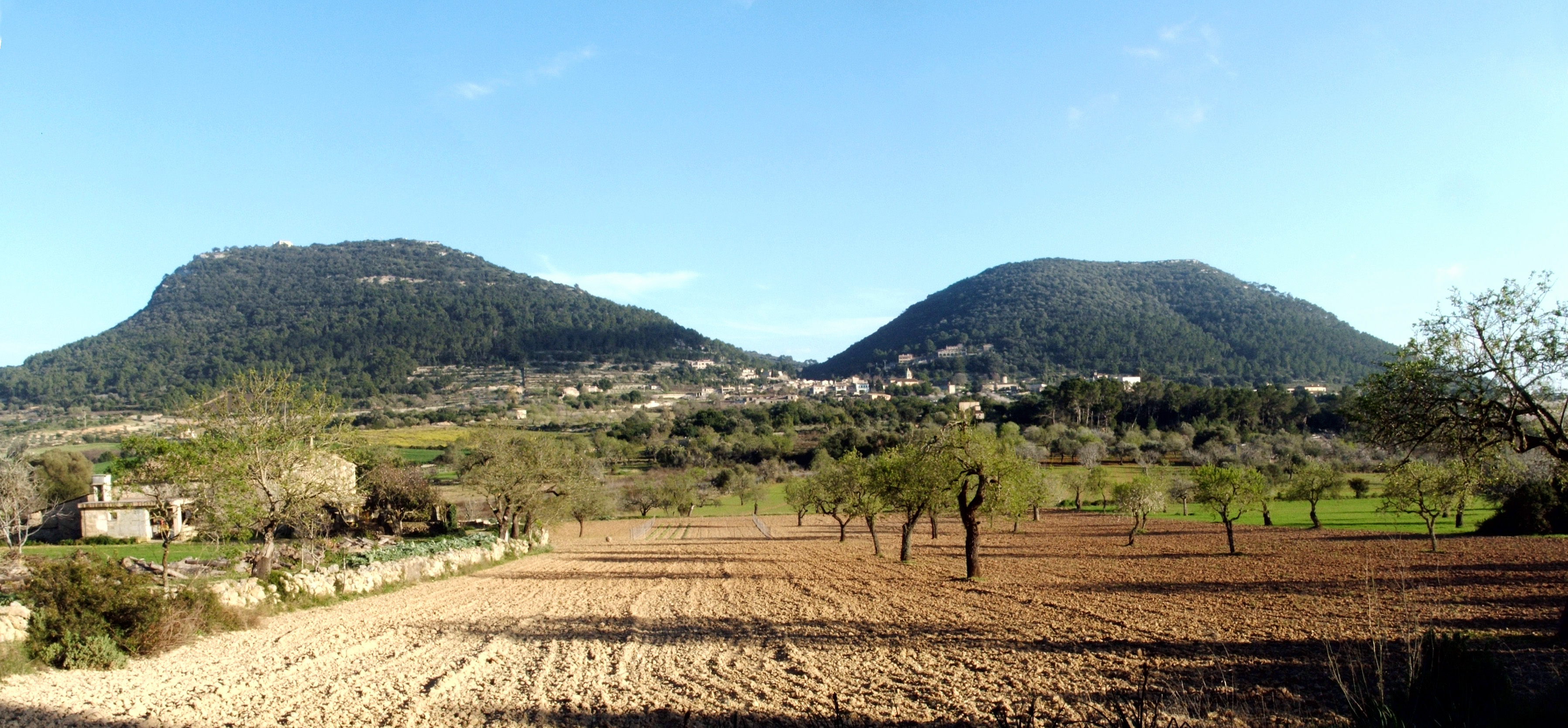 "Puig de Randa". A hill with three important monasteries in Mallorca.